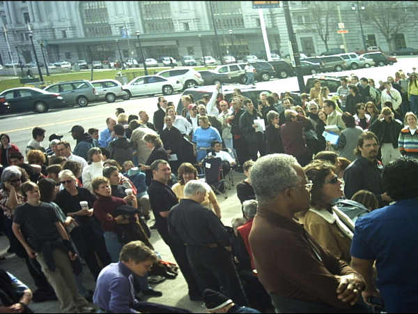 Photo I took of Same-Sex Marriage crowd Feb. 15, 2004 in SF